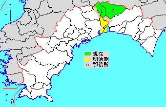 Map of Kochi Prefecture, Japan. Thanks to Aoki Shigenobu and [1]. Colors from Image:TokyoMapCurrent.png by User:Fg2.